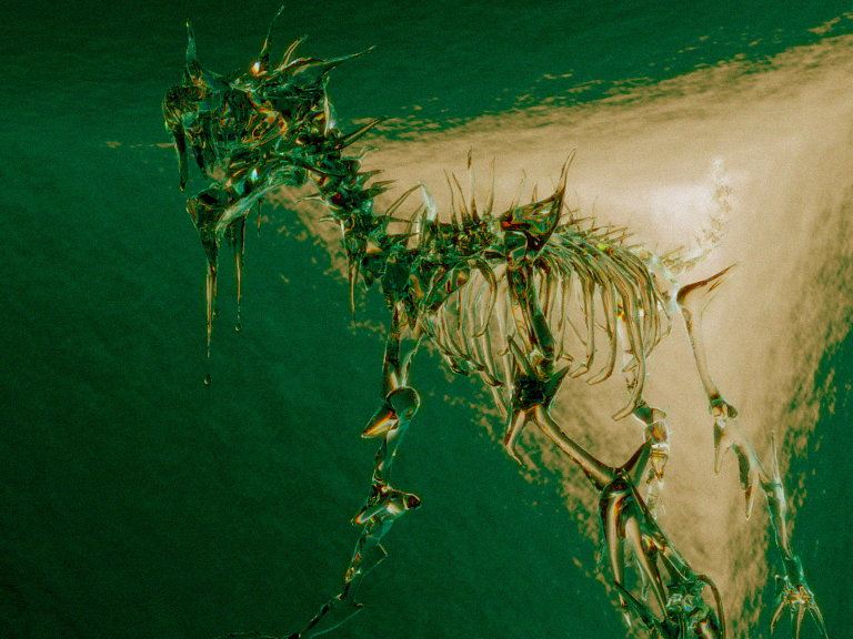 Hound of Tindaloss